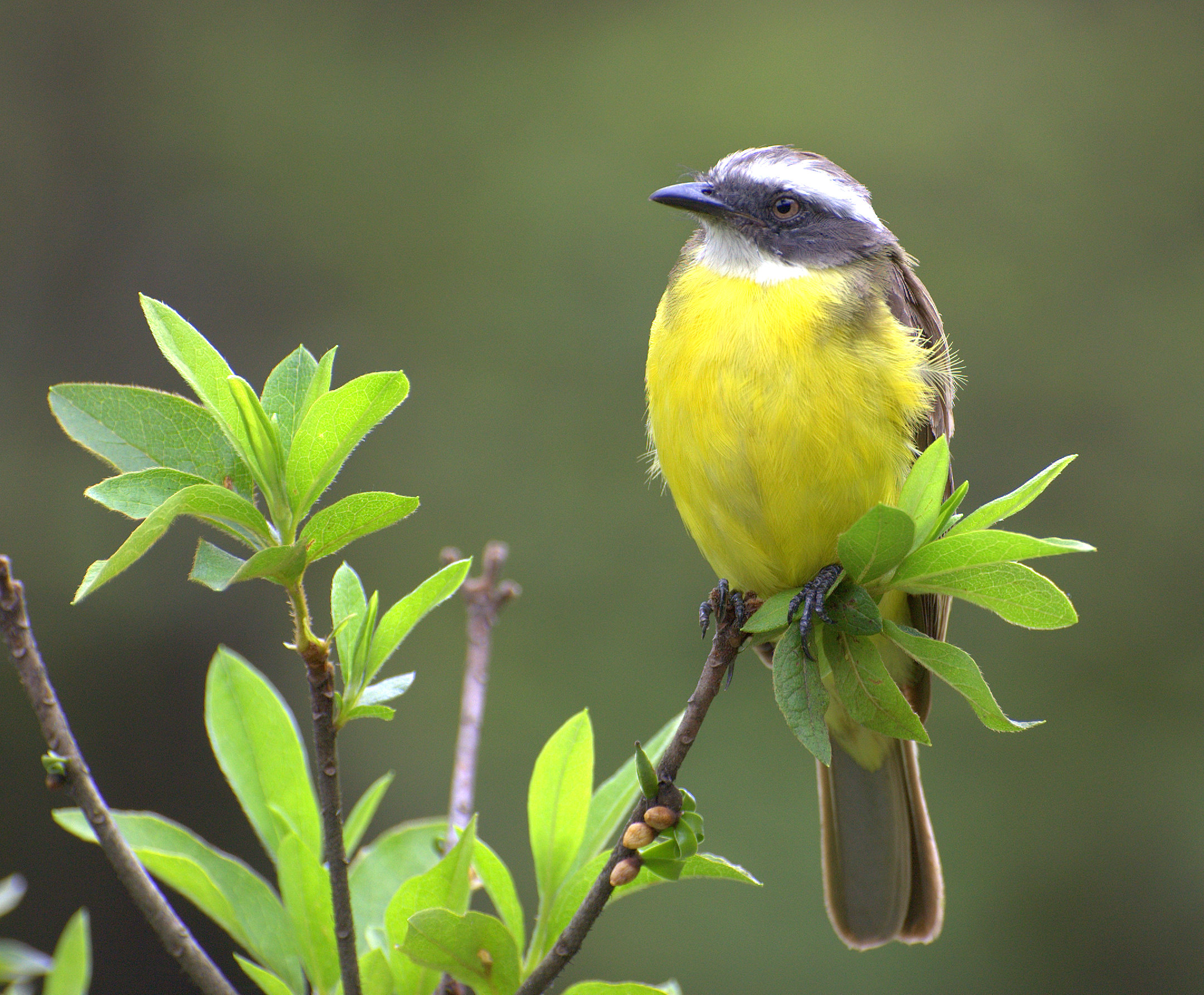 Social Flycatcher at Jardim Botânico de São Paulo, Brazil.